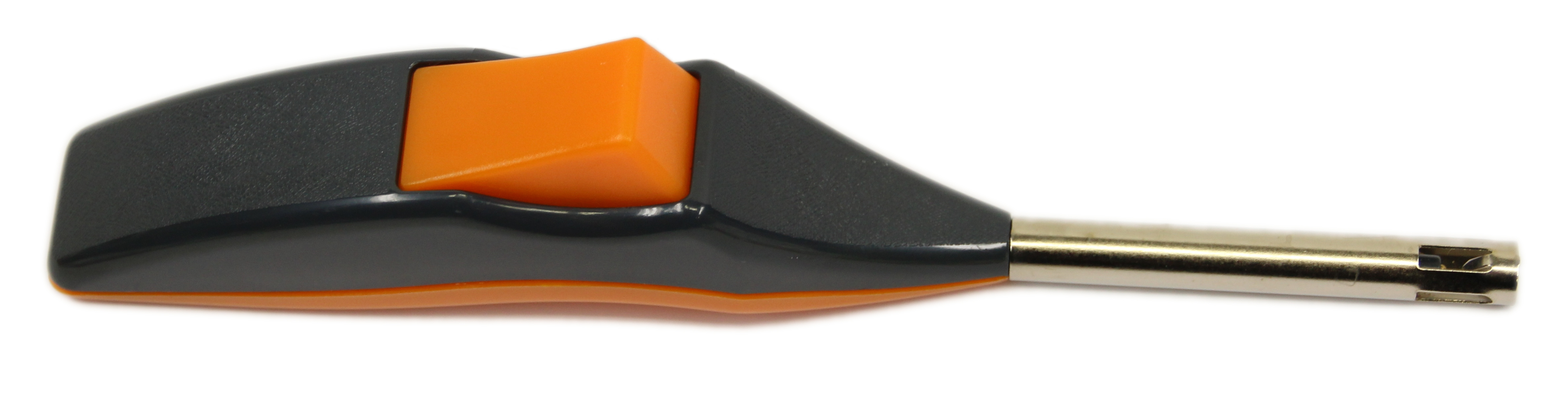 Piezoelectric gas lighter.